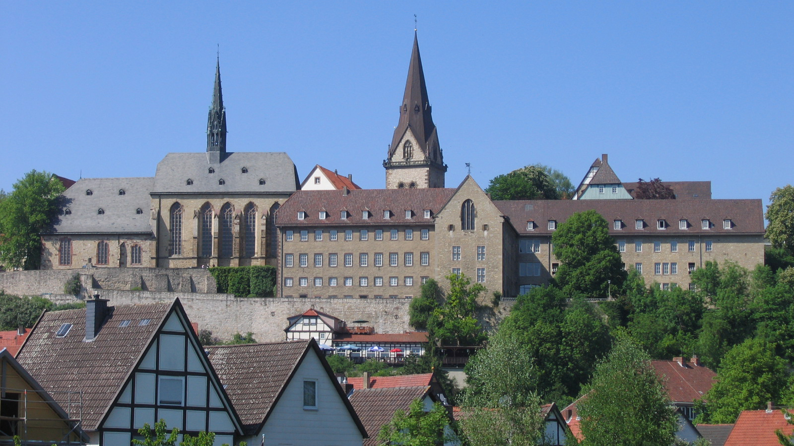 The Gymnasium Marianum in Warburg.Anmerkung: Dieses Bild darf gern kopiert, weiterverwendet, weiterverbreitet und verändert werden, jedoch nur unter Angabe des Autors und unter der Voraussetzung, dass es wieder unter die angegebenen Lizenzen gestellt wird, so steht es auch in der GNU Free Documentation license. (Dies wird oft übersehen/vergessen).Note: You are allowed to copy, distribute and modify this picture but only by mentioning the author's name and licensing it again under the cited license, so it is sayed in the GNU Free Documentation license (but is often ignored or forgotten).